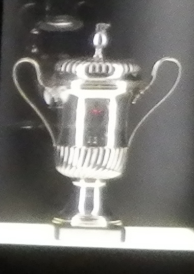 The 1961 European Cup, with the Teresa Herrera and the Iberian Cup on the back